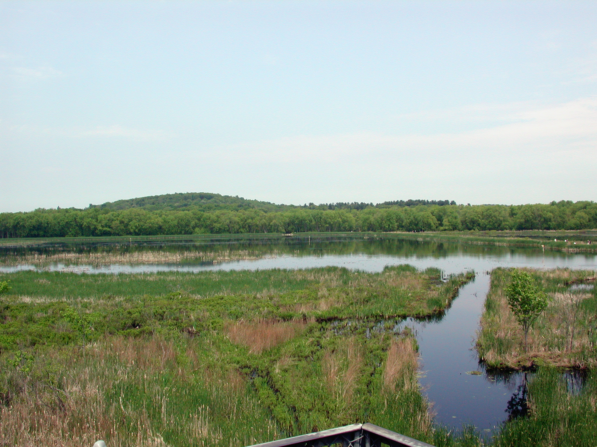 Overview of the Concord section of Great Meadows National Wildlife Refuge from the observation tower near the parking lot of the Monsen Road entrance.